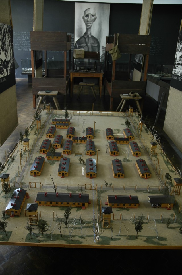 Poland, Zagan - model of Stalag Luft III in Museum of Allied Prisoners of War Martyrdom. Here, in Stalag Luft III there was Tunnel Harry. Escape from through this tunnel is worldwide known as "Great Escape".